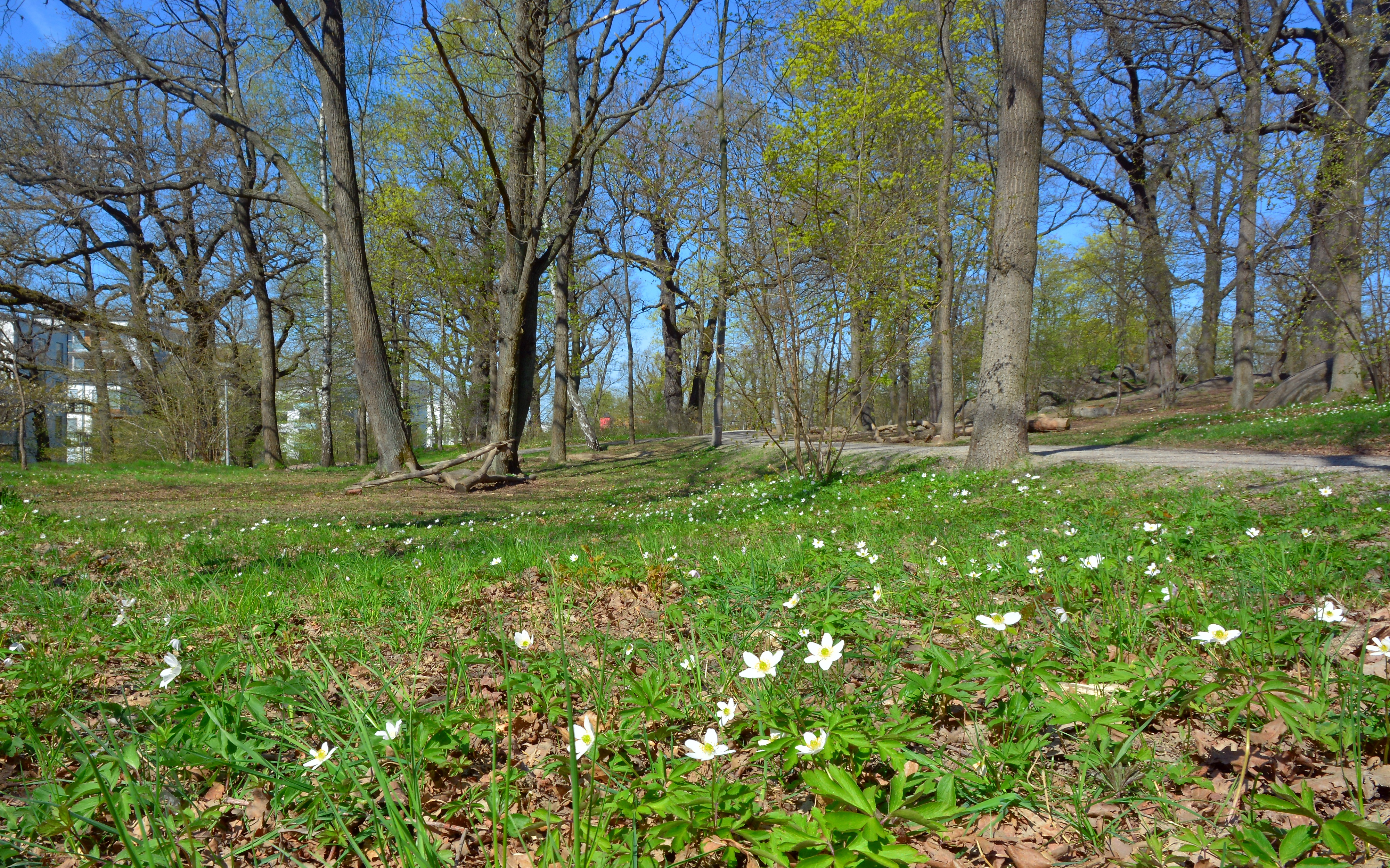 Wood anemone blooming in Sickla park, Hammarby Sjöstad, Stockholm, Sweden.